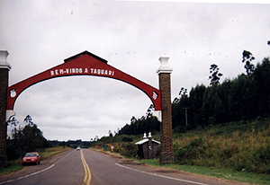 Welcome monument of Taquari